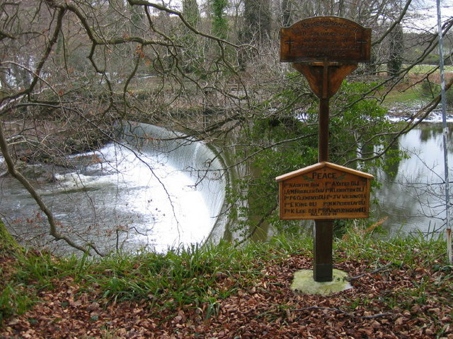 The weir which was the scene of the Guyzance Tragedy, near Guyzance, Northumberland, England, UK. On 17 January 1945, ten soldiers drowned while taking part in a military exercise at Guyzance, on the River Coquet, in Northumberland. The river was in full flood and their boat was swept over the weir and capsized. The men, all aged 18, were weighed down by full combat gear and drowned. In 1995, a memorial service was held to mark the 50th anniversary of the tragedy and a plaque was erected, which now stands in the way of a redevelopment. The date on this memorial is different from the plaque near by (see "File:GuyzanceTragedyPlaque(LesHull)Feb2007.jpg"). This memorial states 15 January as the date of the tragedy, while the plaque states 17 January. According to David Lauckner, the dates are different because Charlie Dick, the person who carved the plaque, of Felton, Northumberland, incorrectly assumed that the date of a memorial service held in Felton on the Sunday nearest to the incident was the date of the tragedy itself, which actually occurred on 17 January. Changing the 5 to a 7 was apparently not possible, and the error was accepted by the regiments concerned. According to a talk given by Mrs. Vera Vaggs, a prime mover in gaining recognition for the ten soldiers who died in the tragedy, Charlie Dick carved the plaque at the top commemorating the incident first, and added the plaque at the bottom with the soldiers' names later on. The stone with the engraved plate was added to the site in 2004 by the Darlington and Aycliffe Branch of the Durham Light Infantry (DLI) Association. The poem on the memorial stone was also written by Dick.